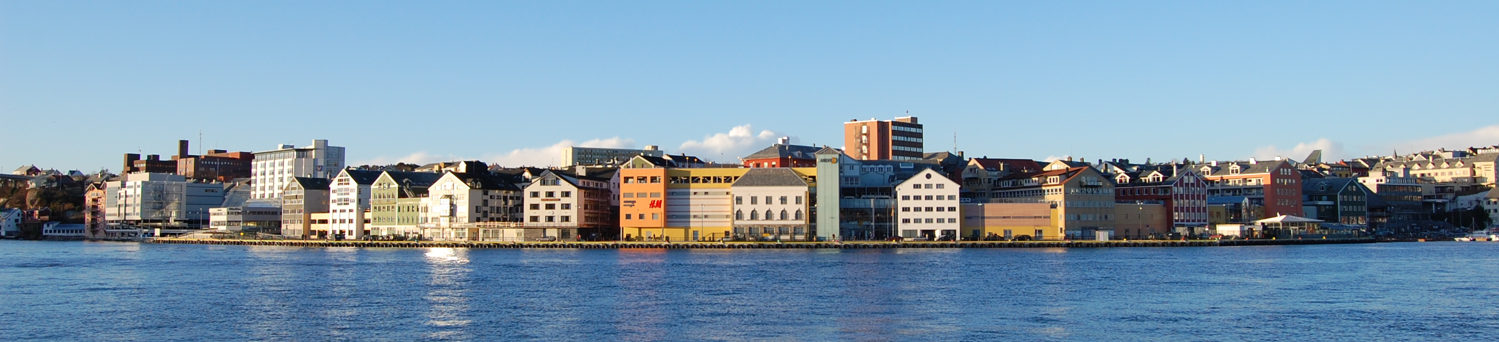 Storkaia, Kristiansund